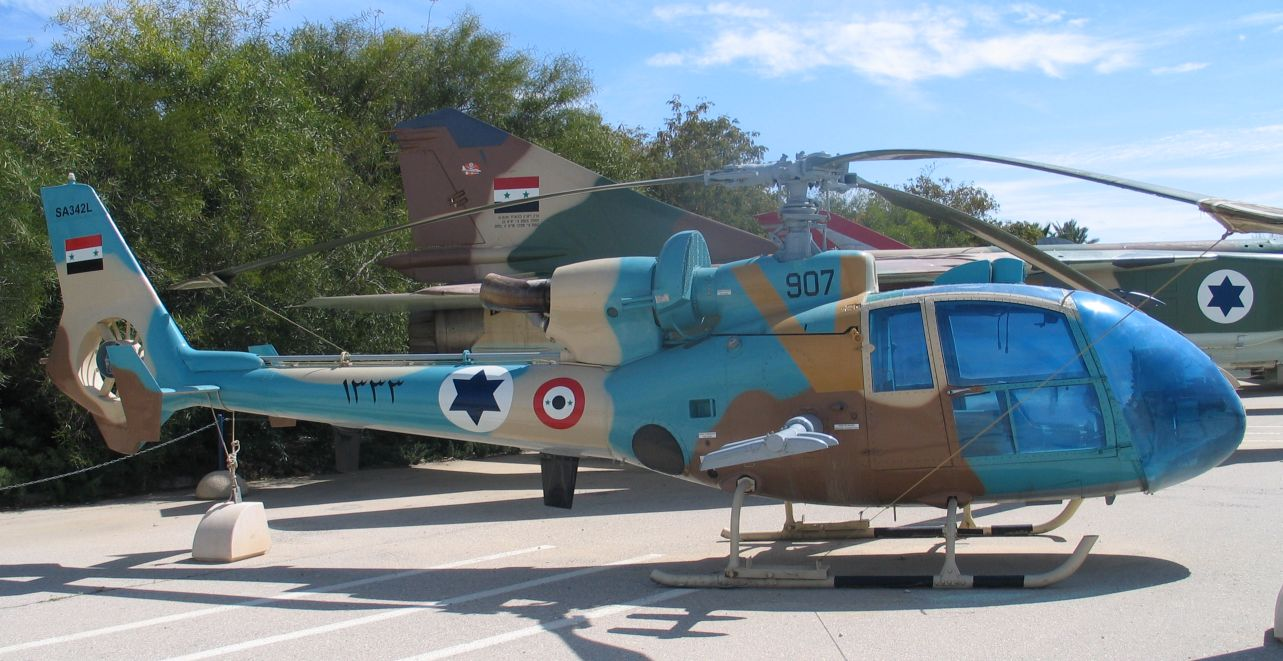 Description: Aerospatiale SA-341L Gazelle AT helicopter at Muzeyon Heyl ha-Avir, Hatzerim, Israel. 2006. The helicopter sports both Syrian and Israeli insignia. Source: Photo by me, User:Bukvoed.